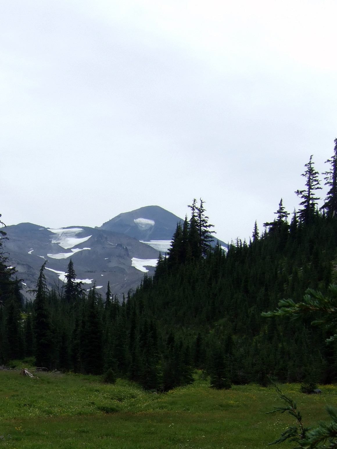 Middle Sister, Three Sisters Wilderness, Oregon